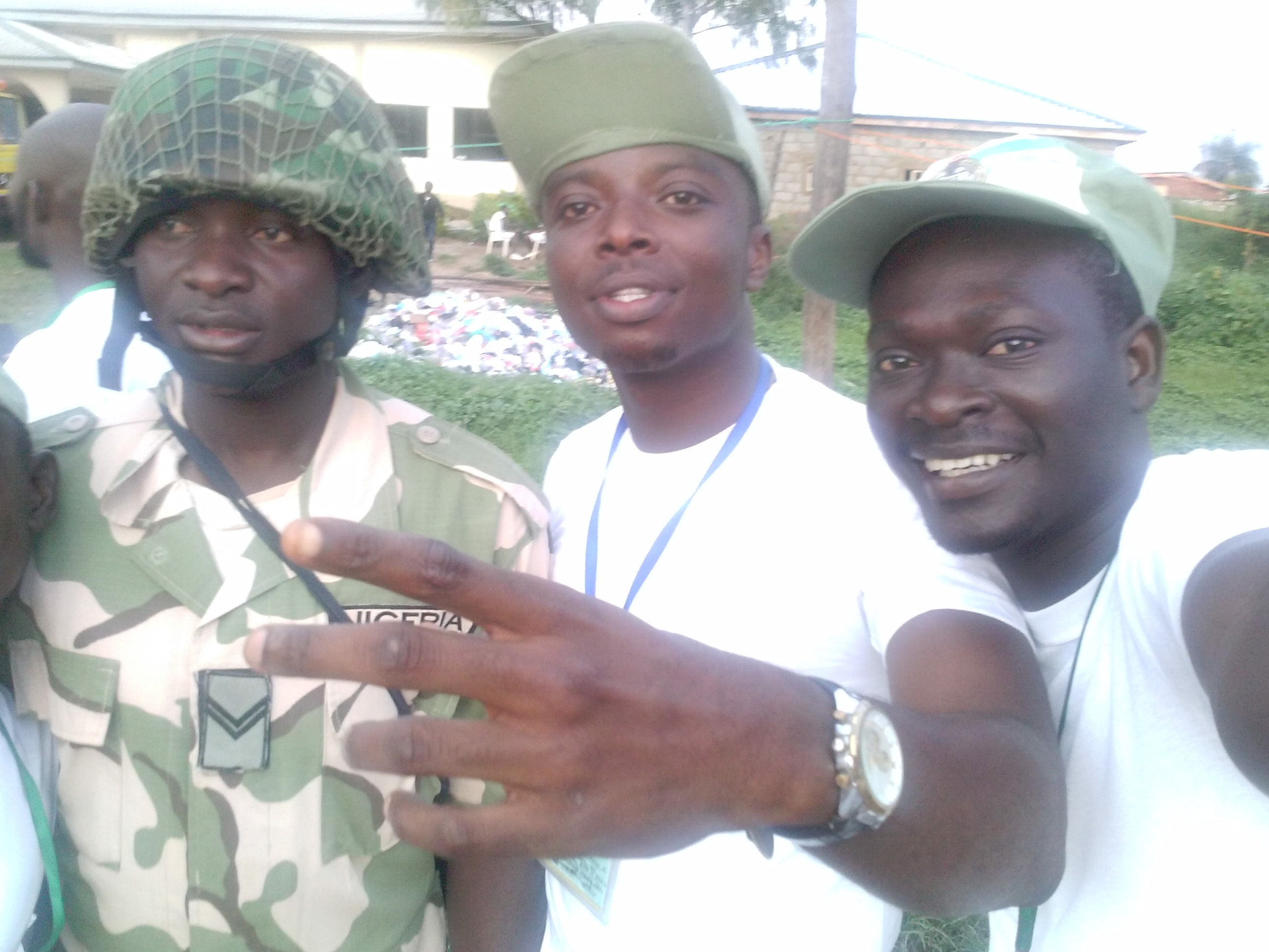 the love and unity of Nigeria exist and obviously can be found in the NYSC camp